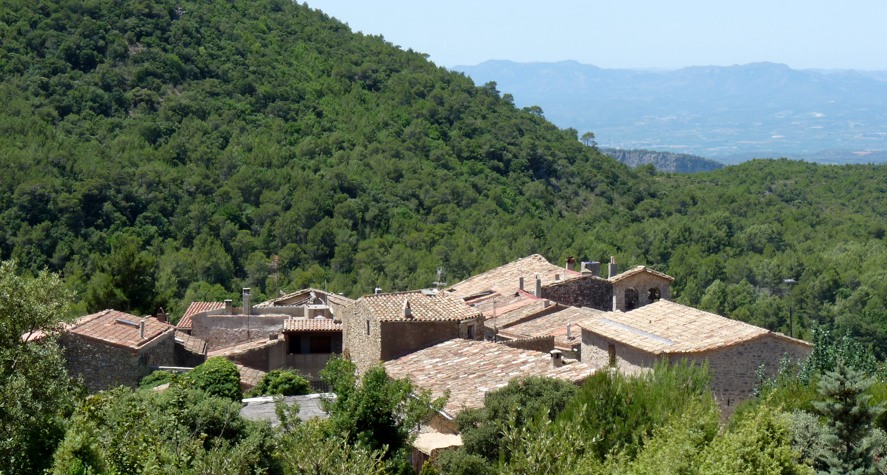 Llaberia